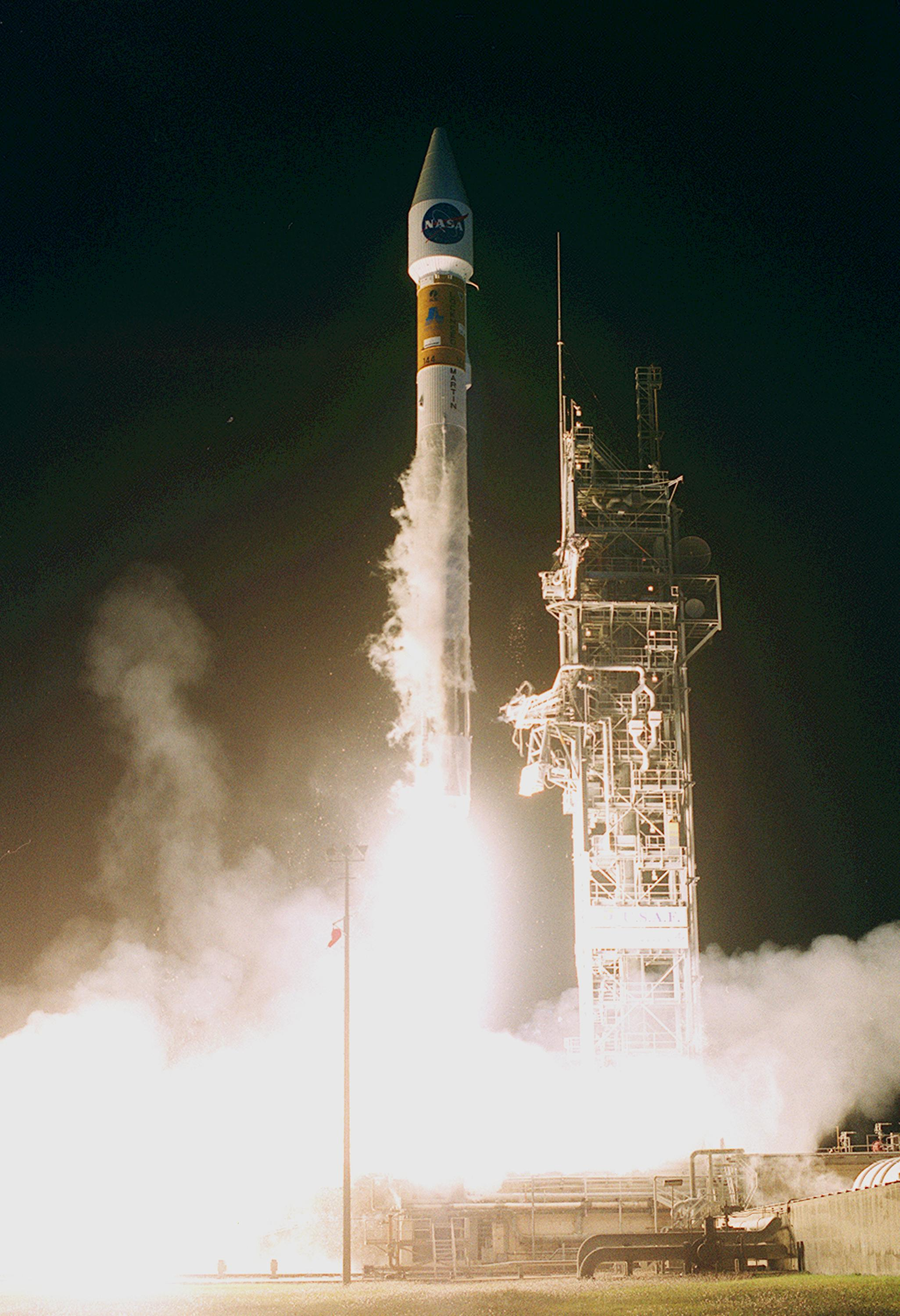 KENNEDY SPACE CENTER, FLA. --At Launch Complex 36-A, Cape Canaveral Air Force Station, the TDRS-J satellite clears the tower as it launches aboard an Atlas IIA vehicle at the beginning of the launch window at 9:42 p.m. EST. TDRS-J, the third in a series of telemetry satellites and 10th overall, will help replenish the current constellation of geosynchronous TDRS satellites that are the primary source of space-to-ground voice, data and telemetry for the Space Shuttle. The satellites also provide communications with the International Space Station and scientific spacecraft in low-Earth orbit such as the Hubble Space Telescope. This new advanced series of satellites will extend the availability of TDRS communications services until about 2017